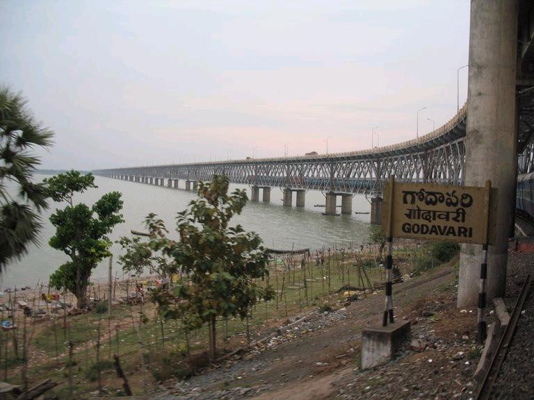 This is the Rail-Road Bridge present on the Godavari River at Rajumandary